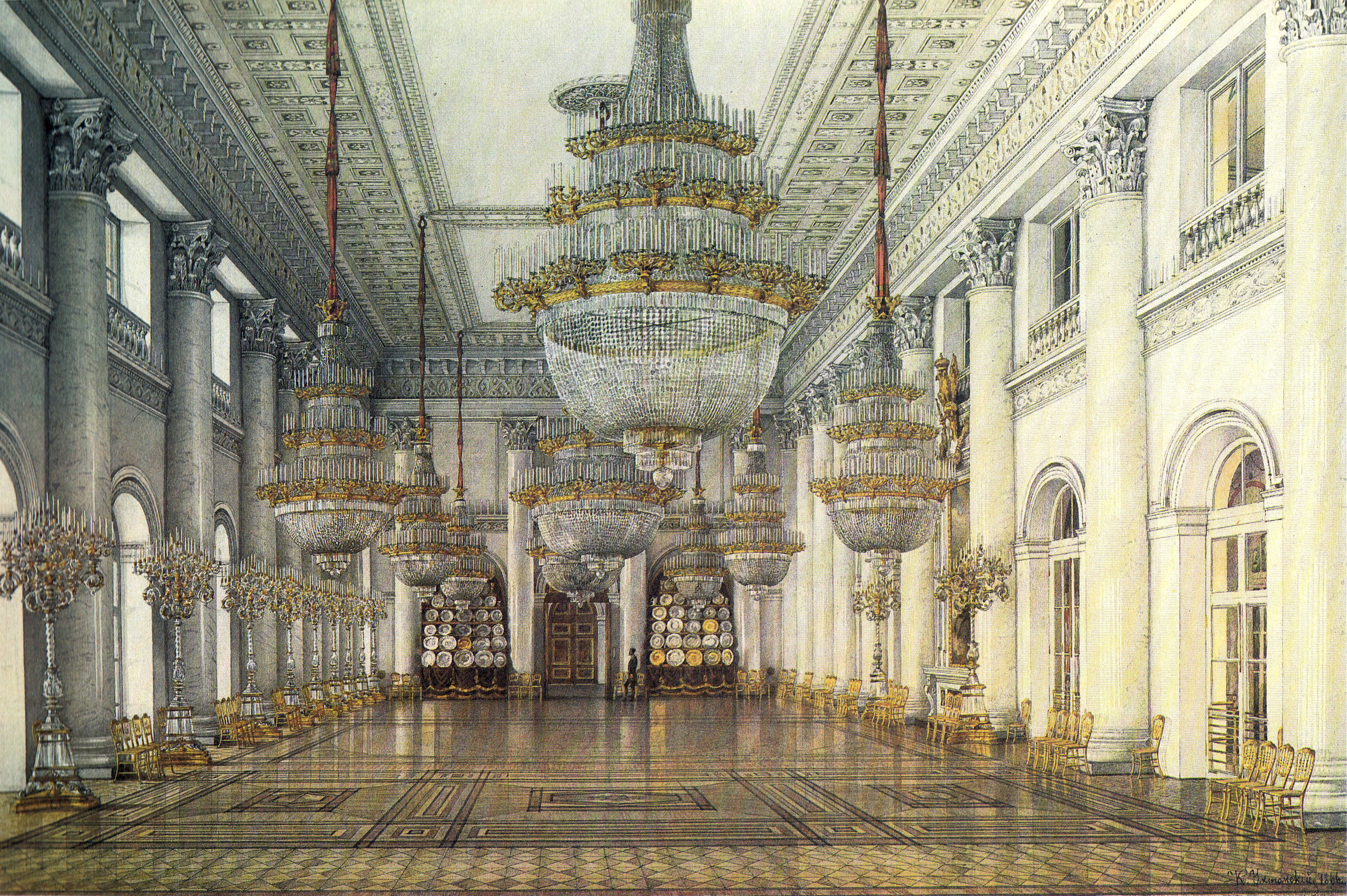 Interiors of the Winter Palace. Nichlas Hall